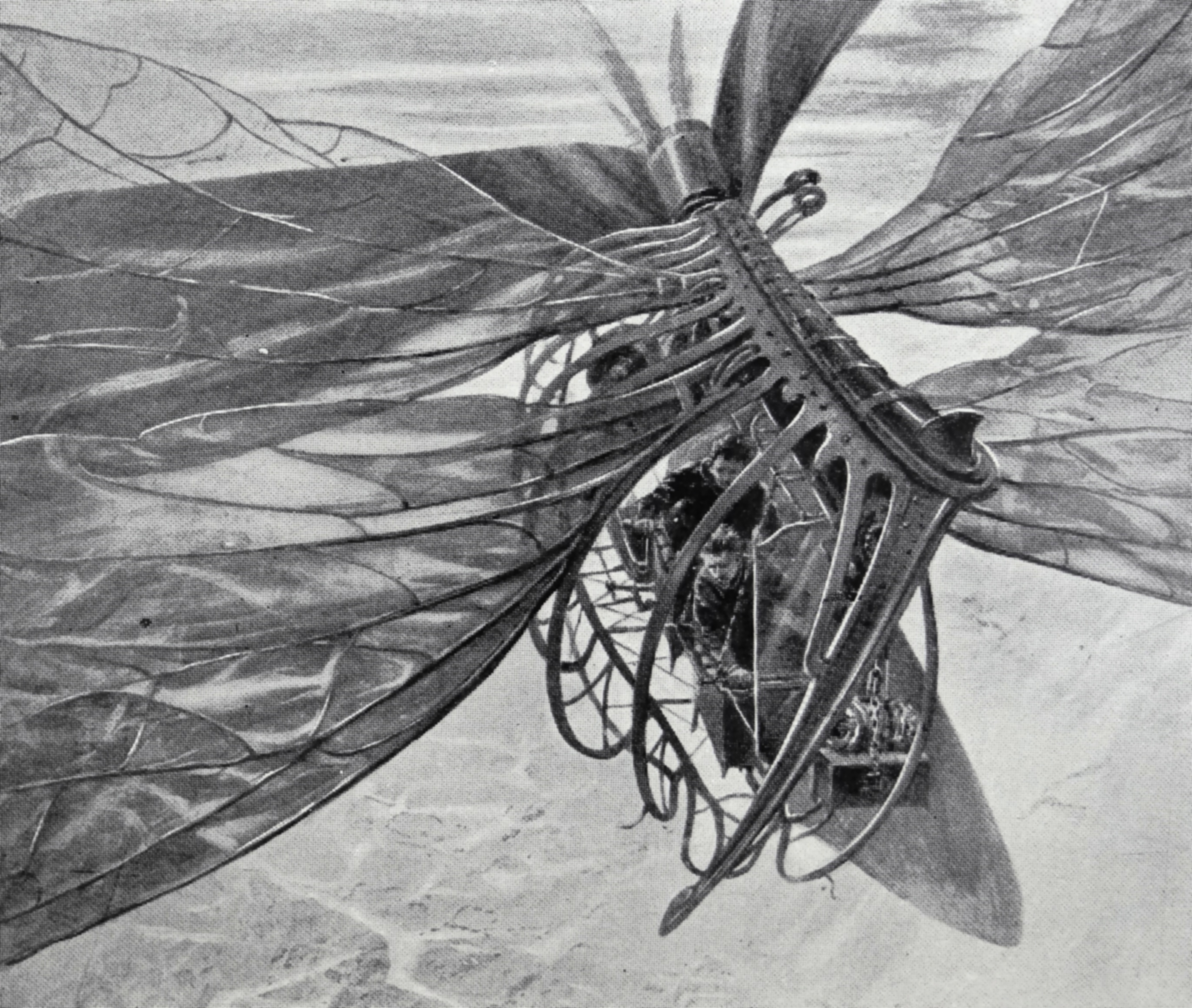 "The Aeropile." Art by H. Lanos for "When the Sleeper Wakes" by H. G. Wells (1899)